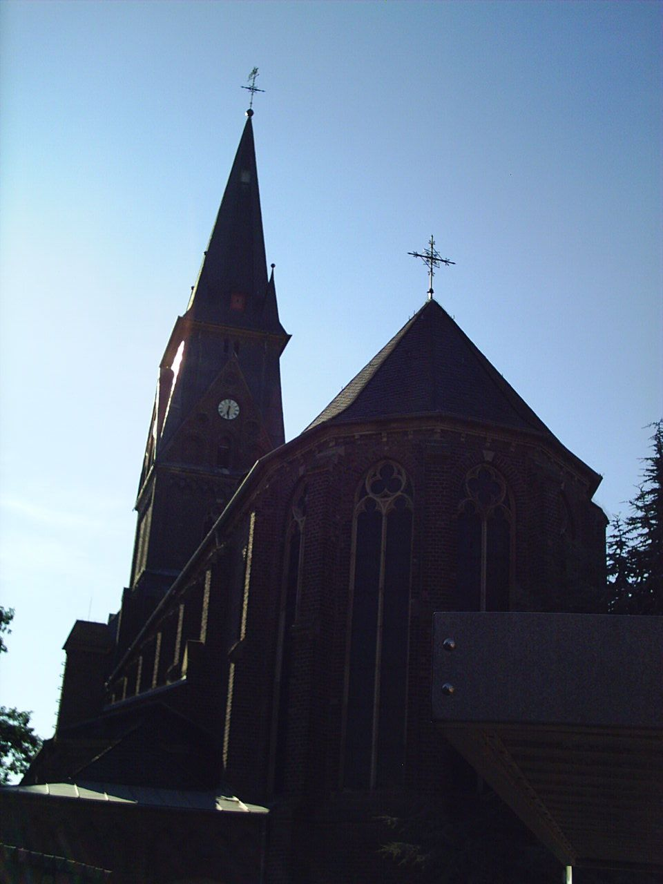 St. Martin in Friesheim, Erftstadt, Germany check usage